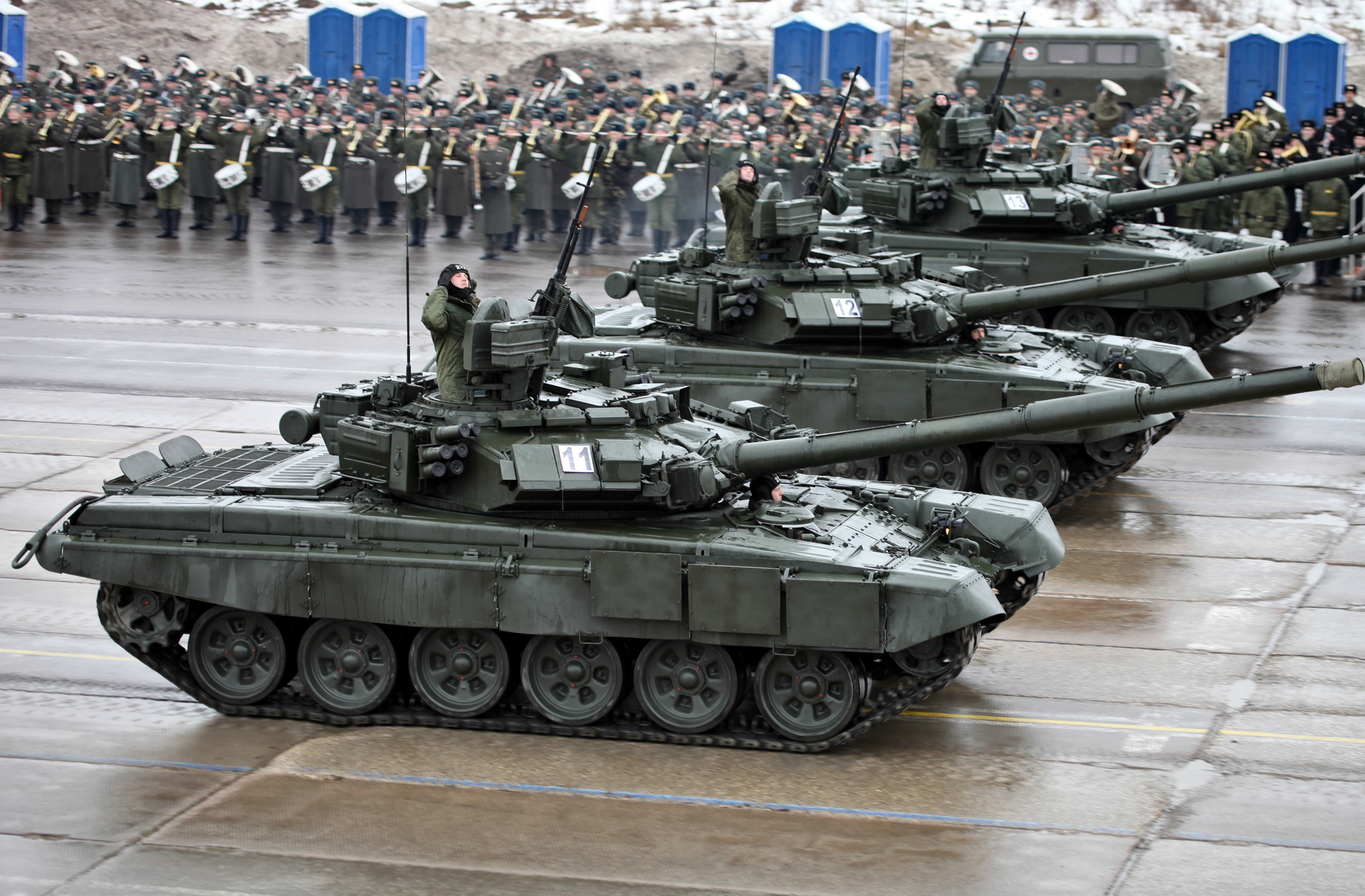 T-90A